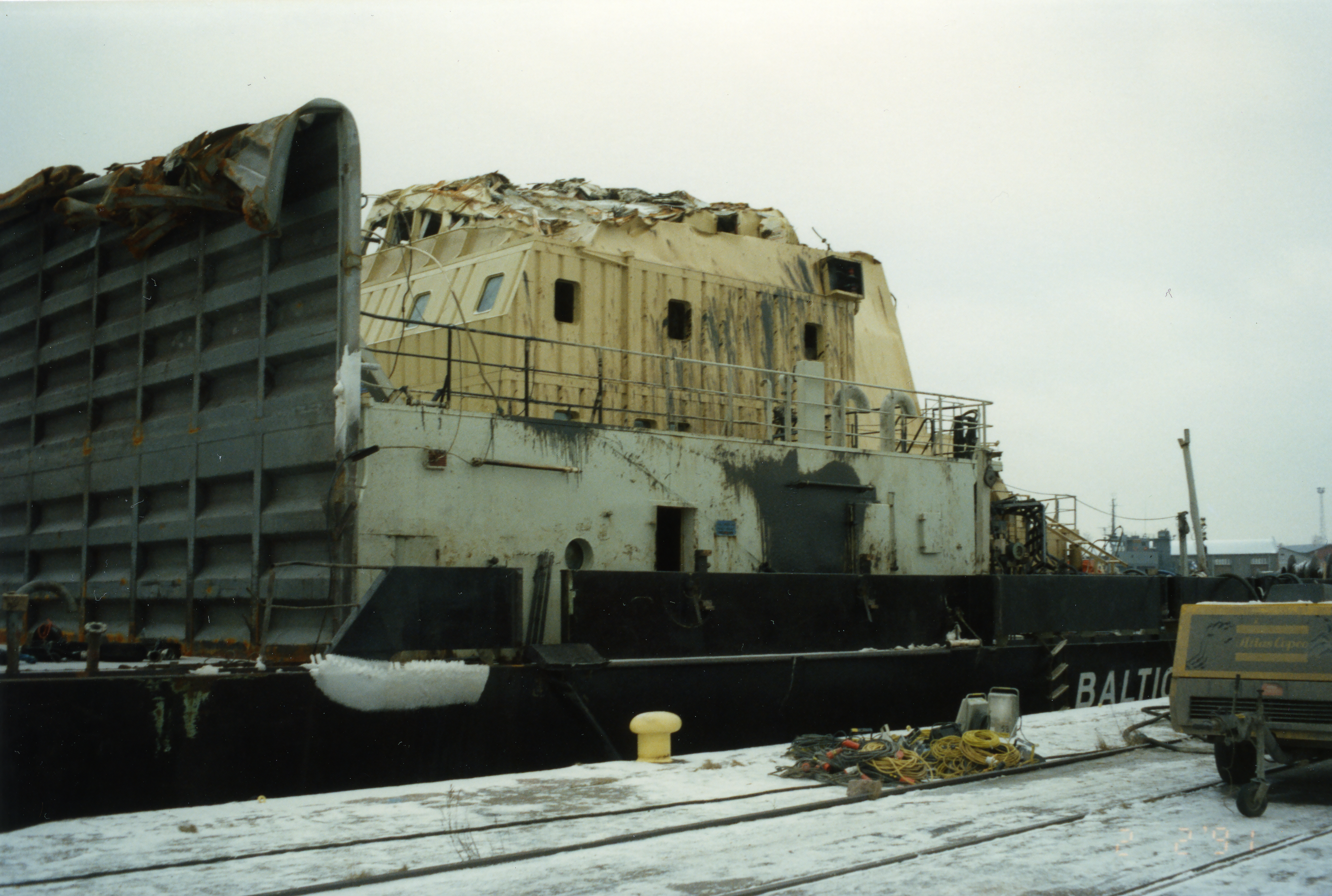 Pusher-barge combination (integrated tug and barge) Finn-Baltic recovered after capsizing off Hanko on 27 December 1990.